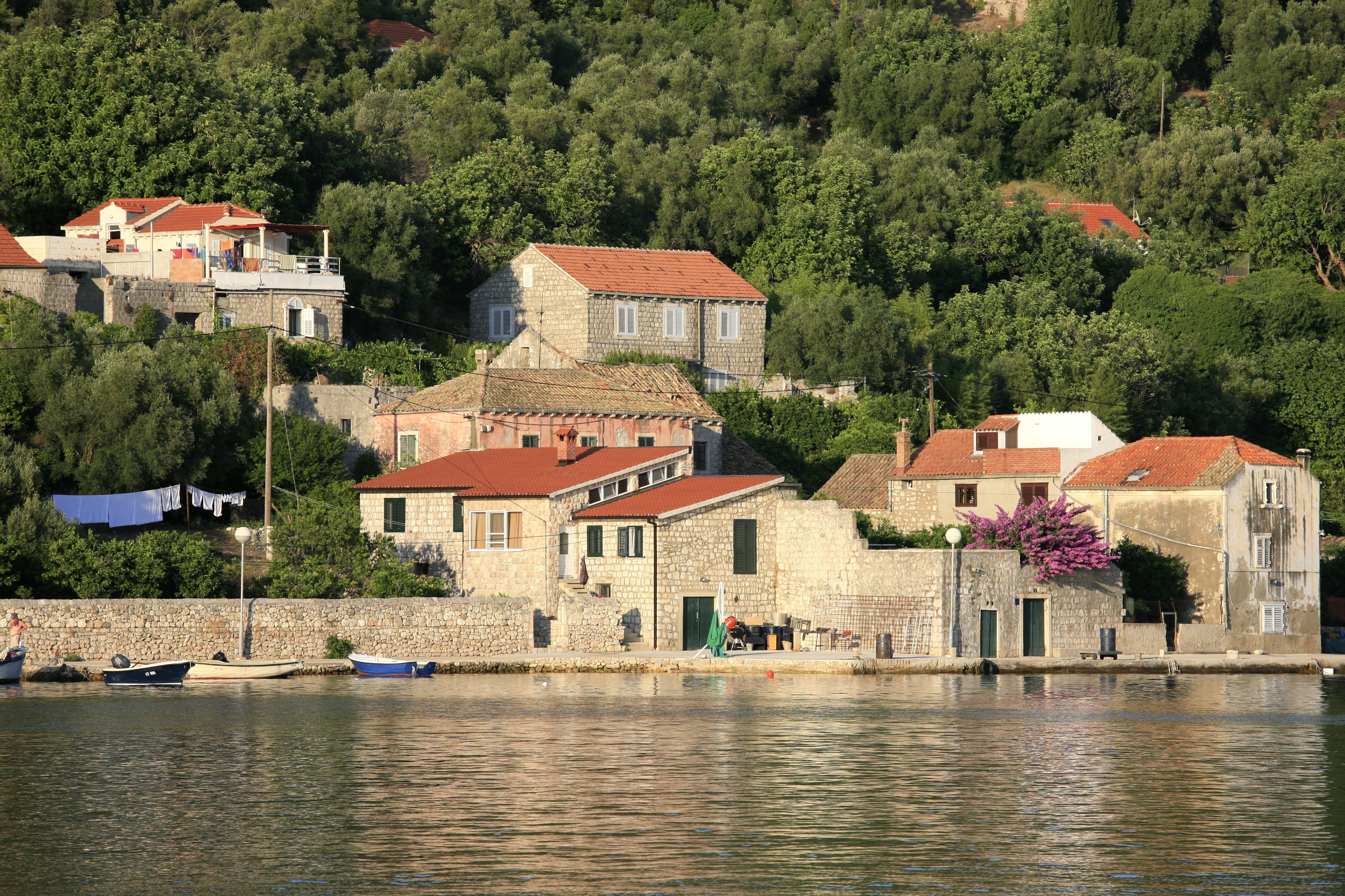 Houses of Sipan Island